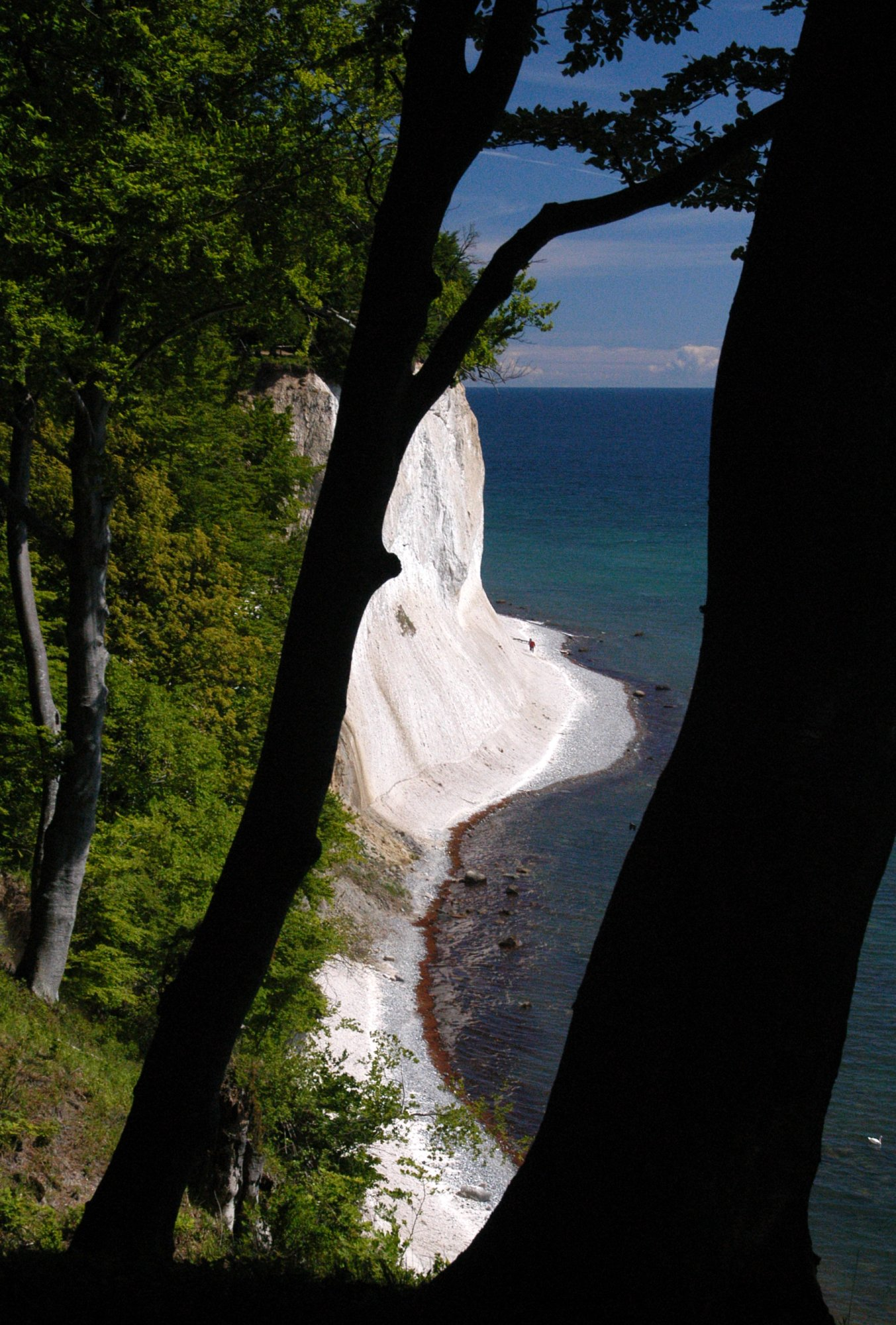 The chalc cliffs of island Rügen (D)